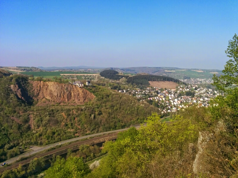 The Hellberg nature reserve.